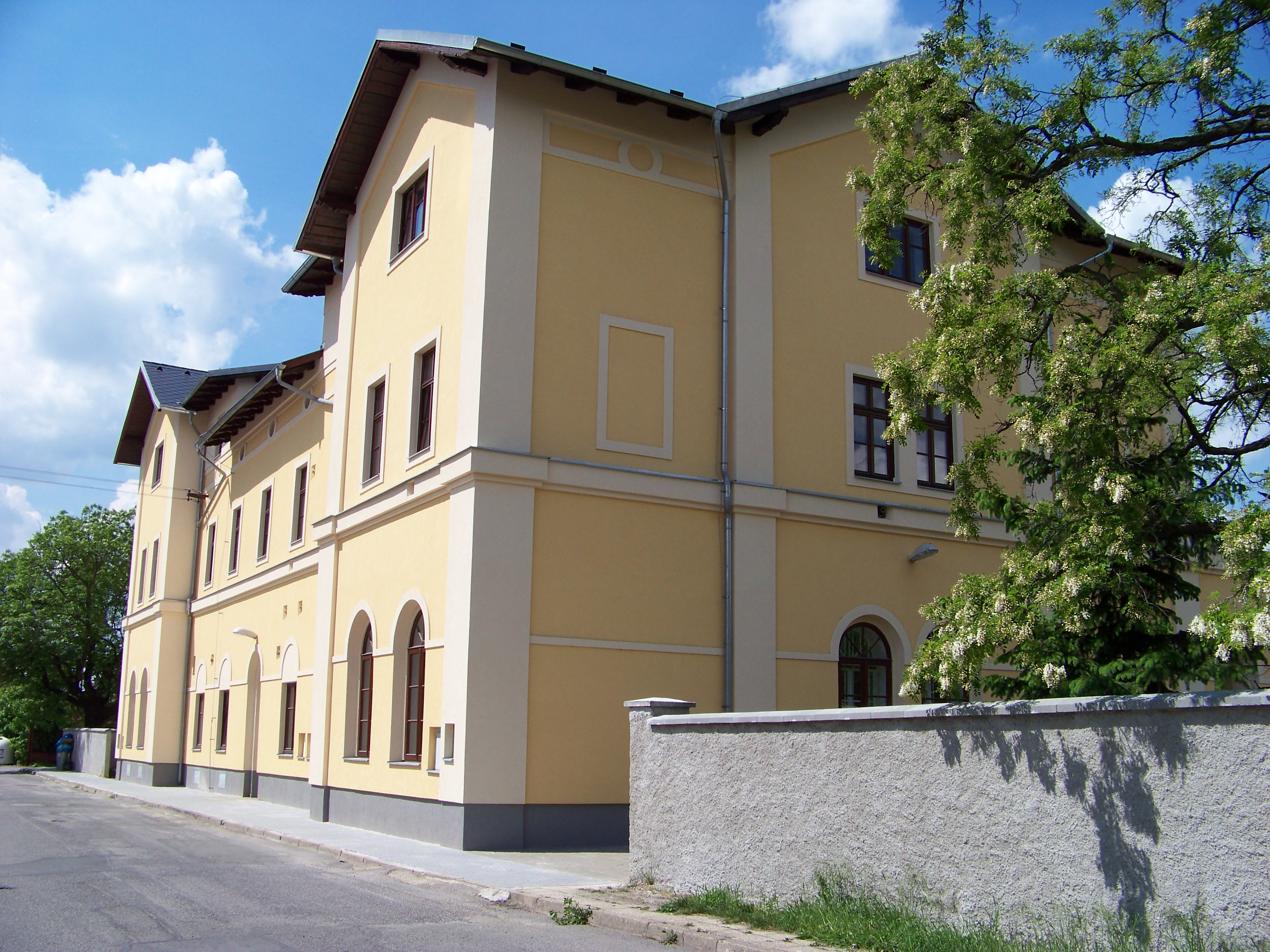 Hostivice, Prague-West District, Central Bohemian Region, the Czech Republic. Železničářů street, the train station "Hostivice".